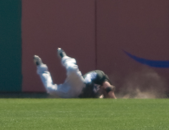 Zimmerman flies out to RF on a rather amazing catch by Carroll